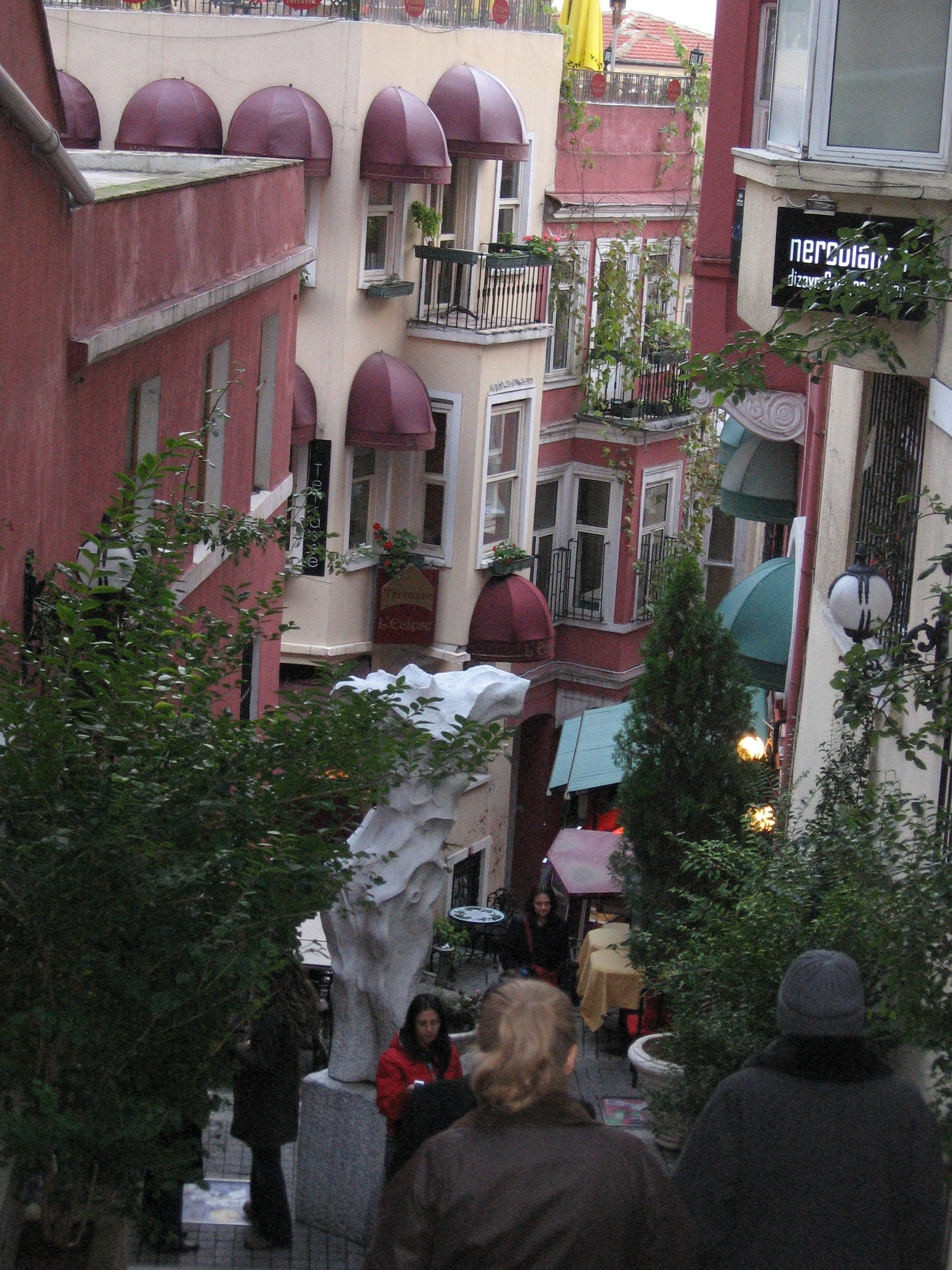 Algerian Street, Beyoglu, Istanbul